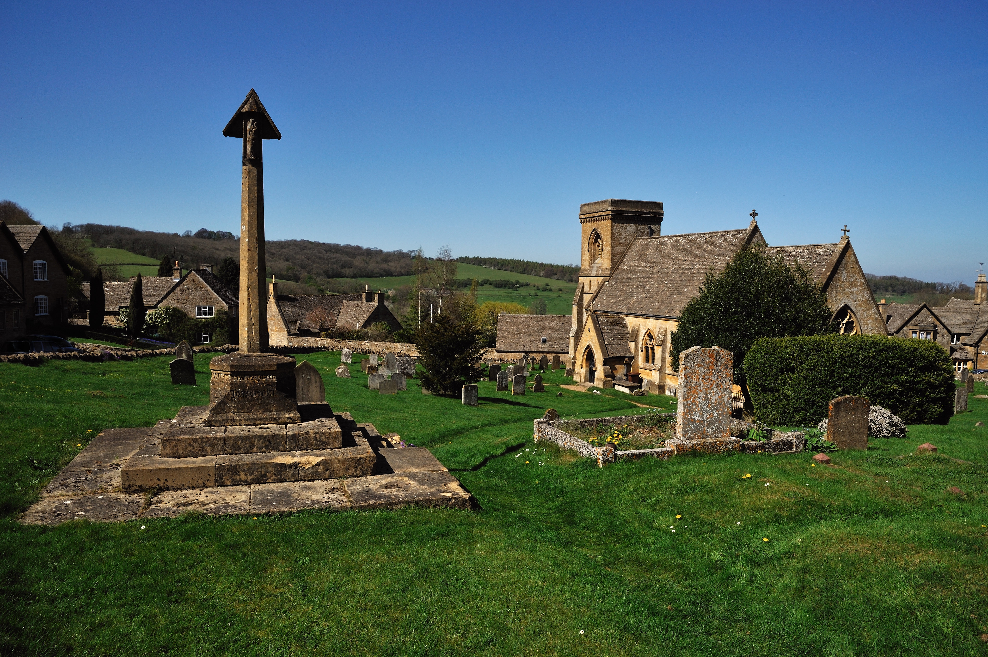 St Barnabas Church and War Memorial Cross in the Cotswold village of Snowshill.